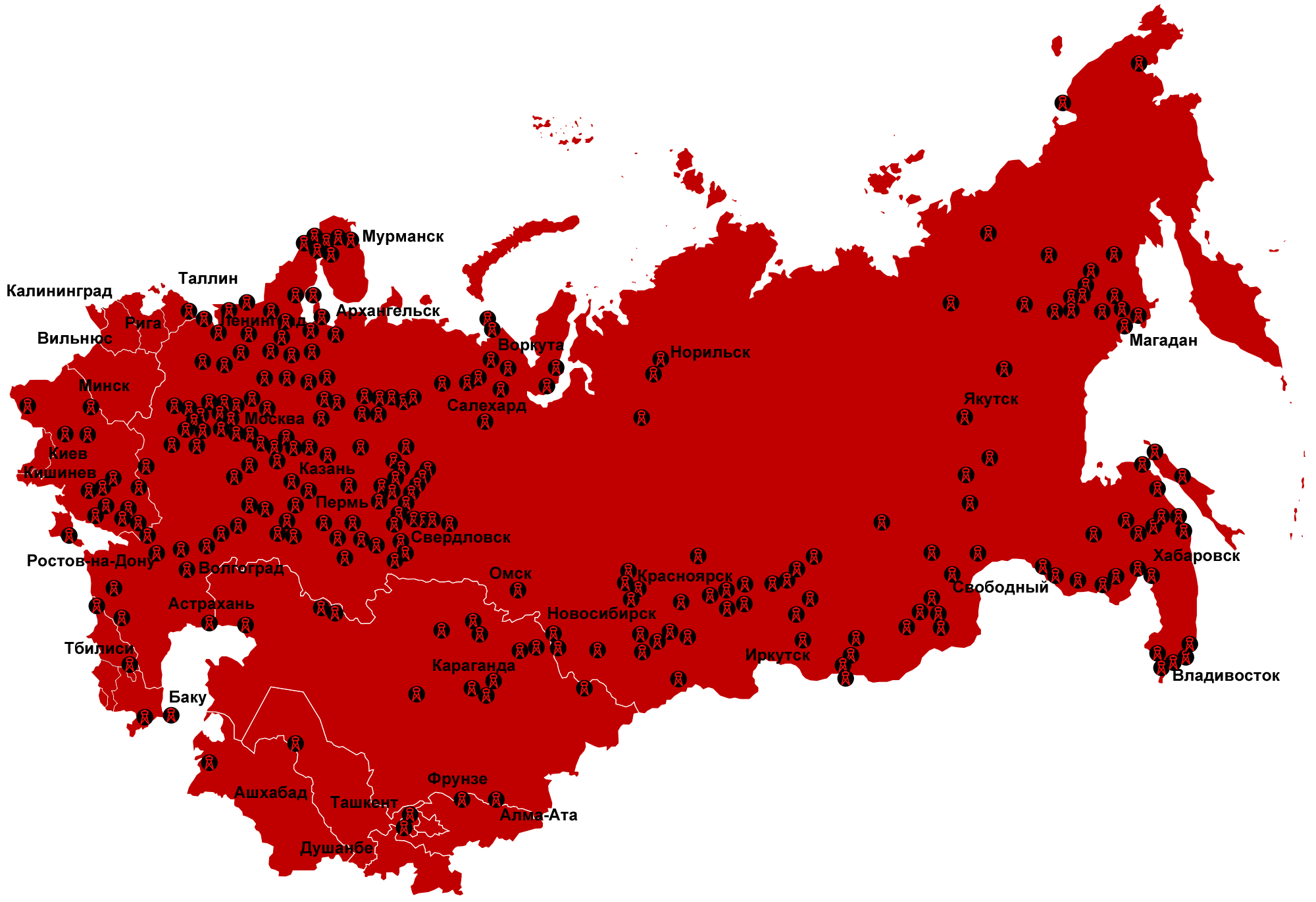 Gulag locations map in the former Soviet Union: main camps (over 5000 prisoners).